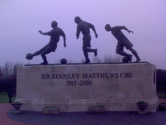 Stanley Matthews monument in Britannia Stadium, Stoke-on-Trent, sculpted by Carl Payne and others (2001)